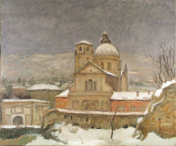 Painting by Silvio Oliboni : Neve A S Giorgio In Braida / 0482ac